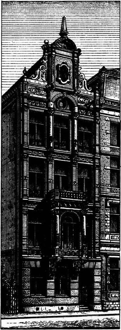 House, Plantage Middellaan, Amsterdam. 1879 (construction).